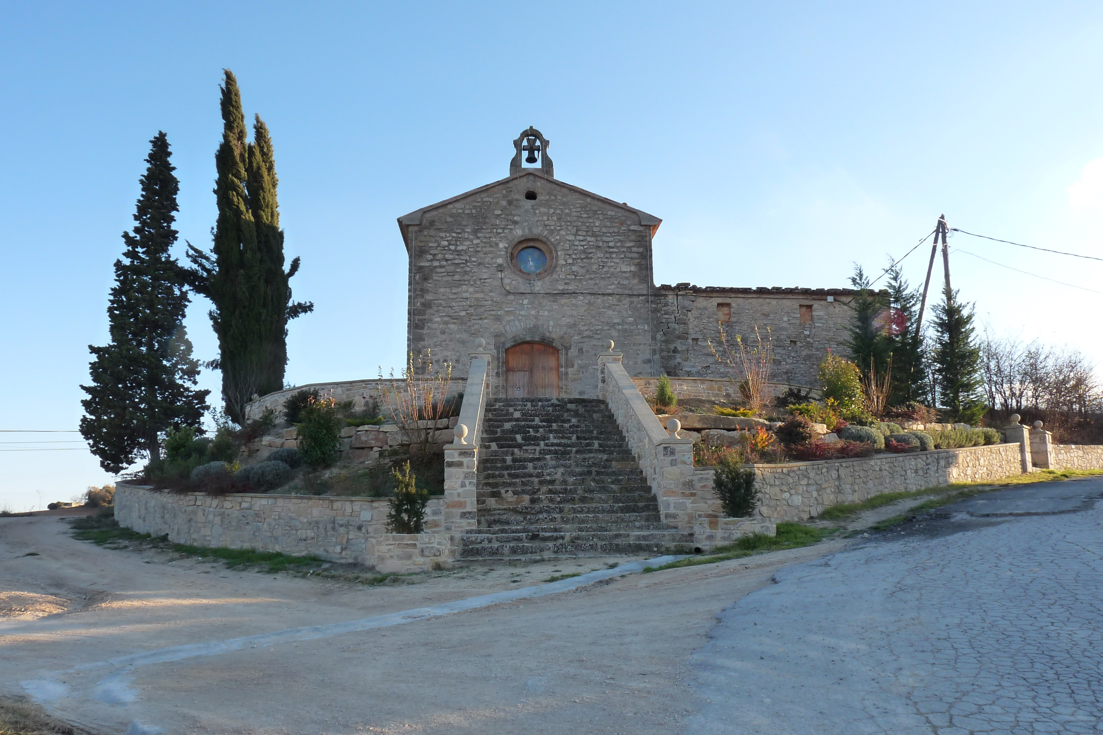 Hermitage of Santa Eugènia, Les Piles